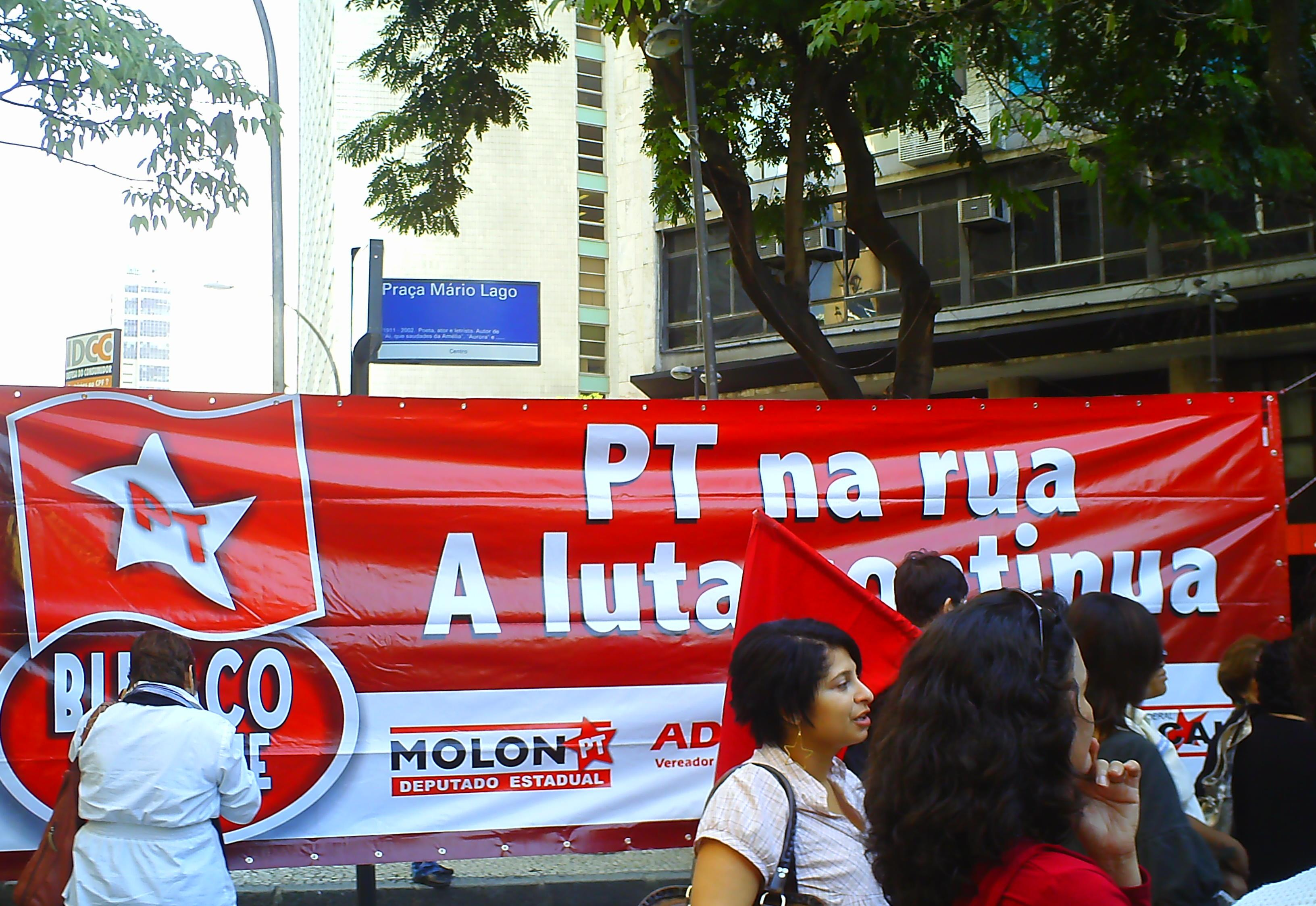 Buraco do Lume (oficially Praça Mário Lago), locality in Rio de Janeiro.